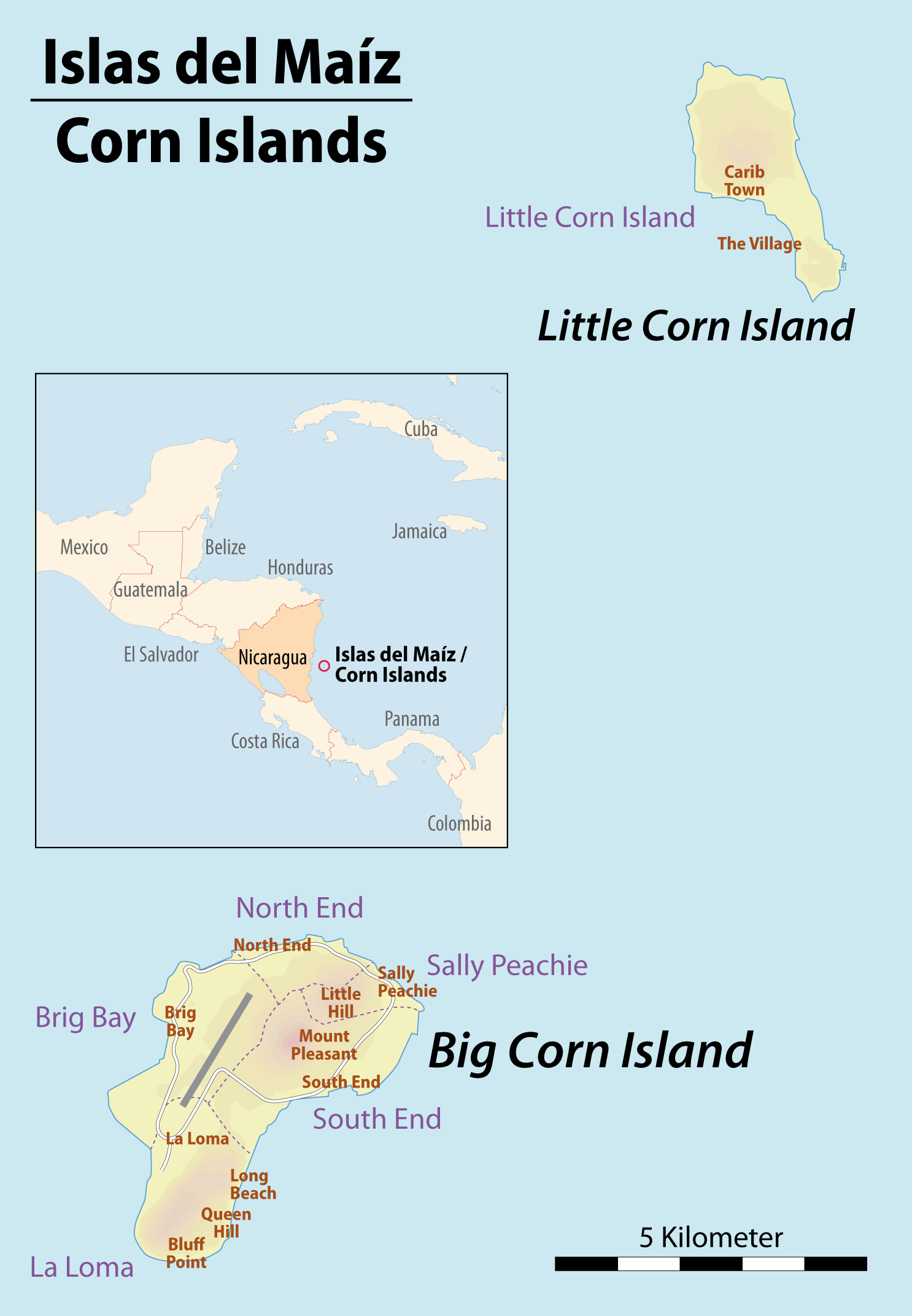 Map of the Corn Islands (Nicaragua)